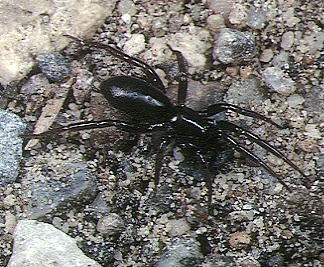 female Zelotes flexuosus from Okinawa.